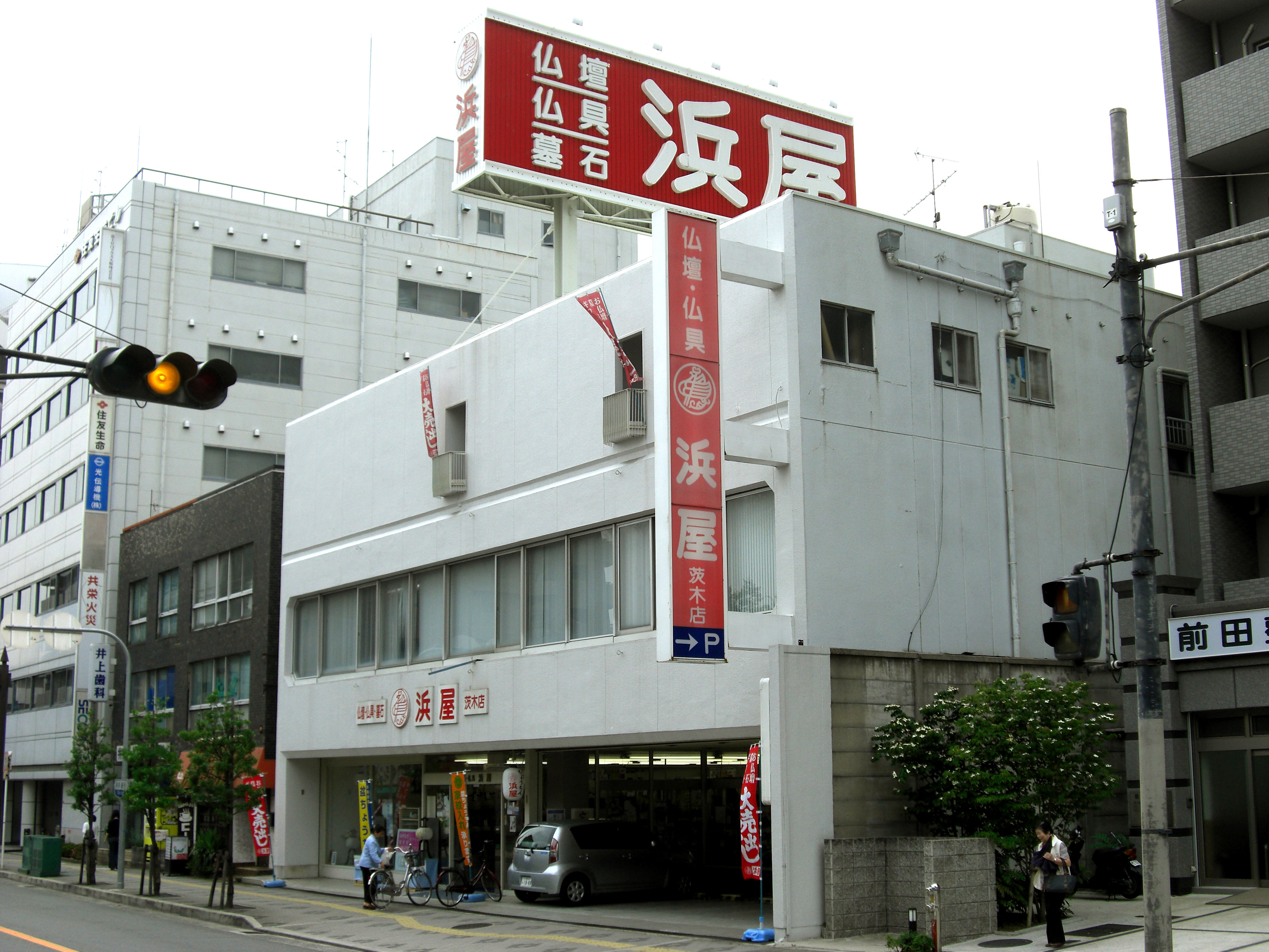 Hamaya Ibaraki,Ootecho Ibaraki-City Osaka Japan.